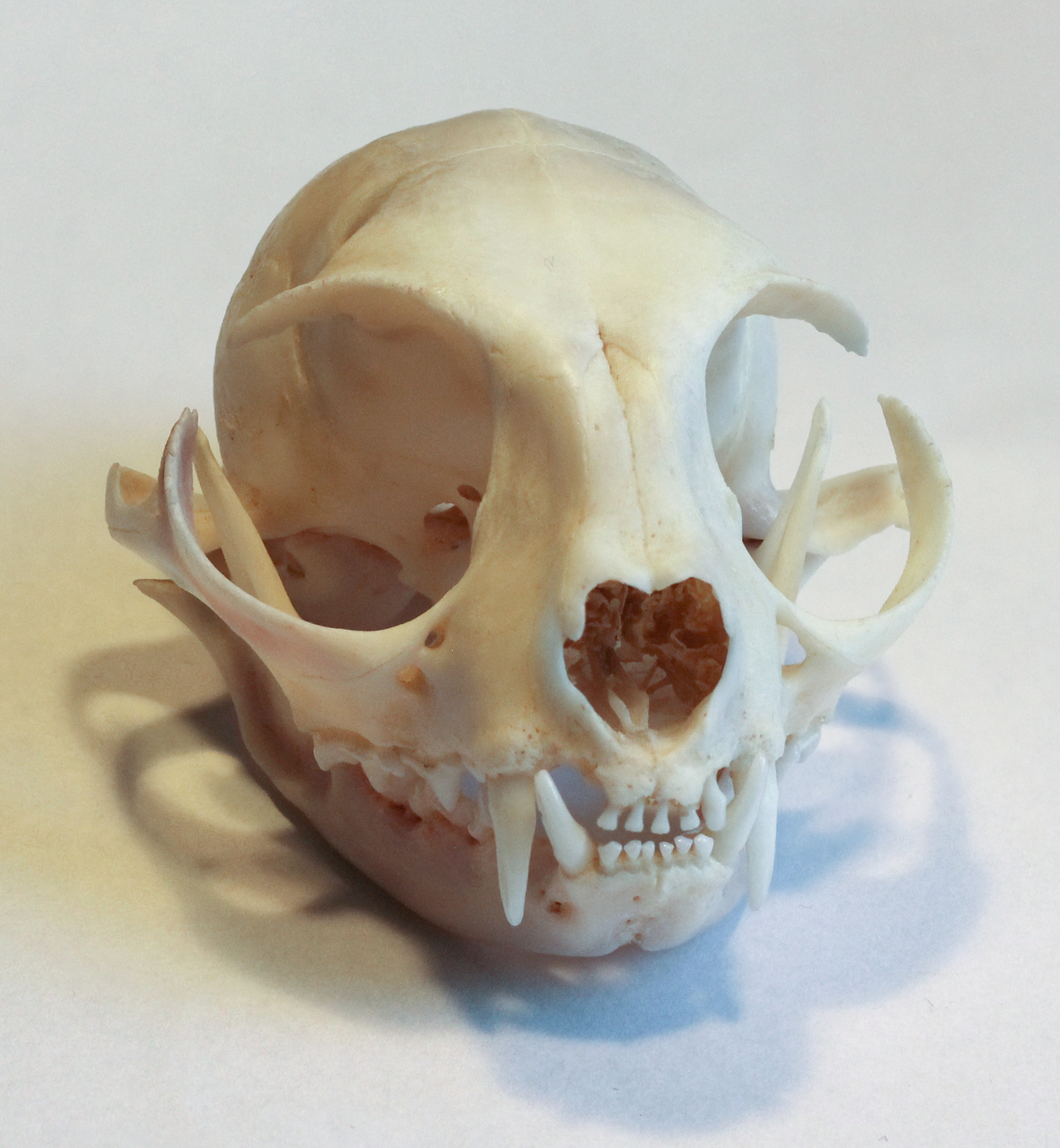 The skull of a Felis silvestris catus from the front, focus stacked. This image was created with Zerene Stacker